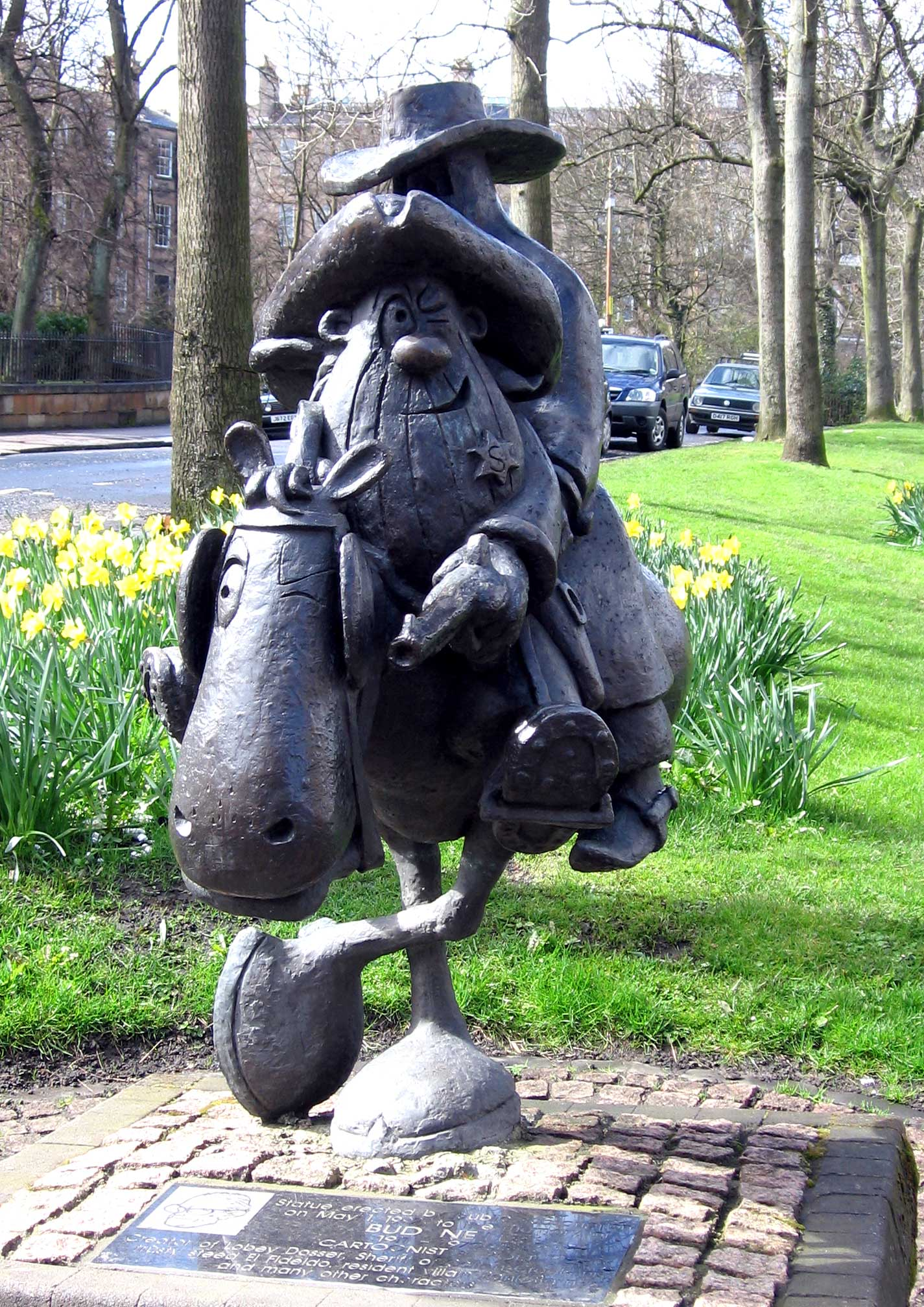 Equestrian statue in honour of Bud Neill at Woodlands Road, Glasgow; featuring Sheriff Lobey Dosser along with his arch enemy Rank Bajin, astride Lobey's faithful steed El Fidelio (Elfie), the only two legged horse in The West. photograph taken on 17 April 2006 by User:Dave souza. Any re-use to contain this licence notice and to attribute the work to User:Dave souza at Wikipedia.